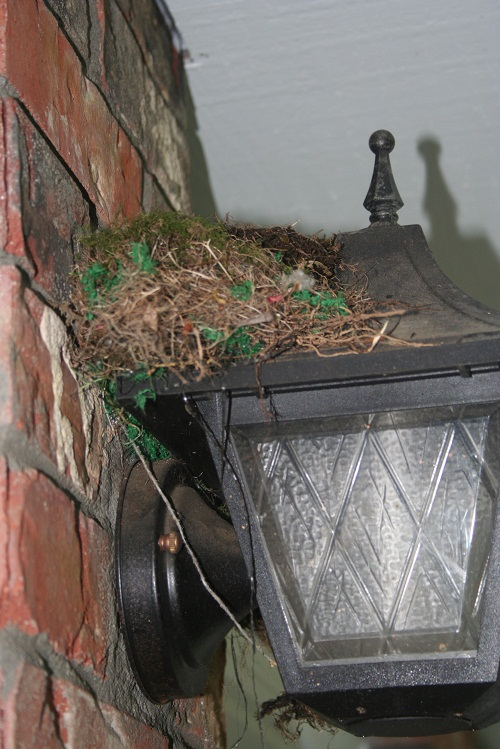 Nest of American Robin